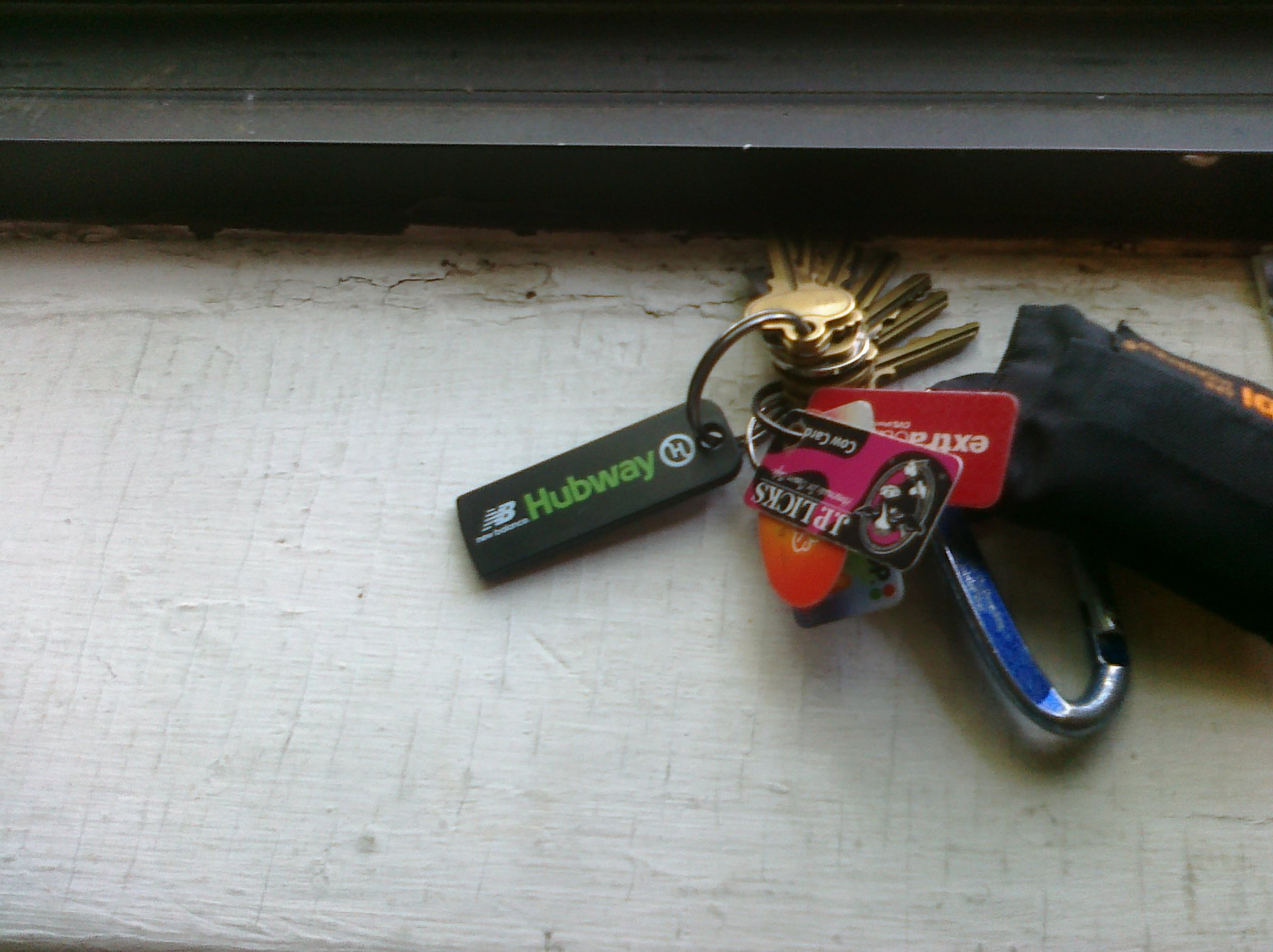 An RFID key for Boston's Hubway bike share system.